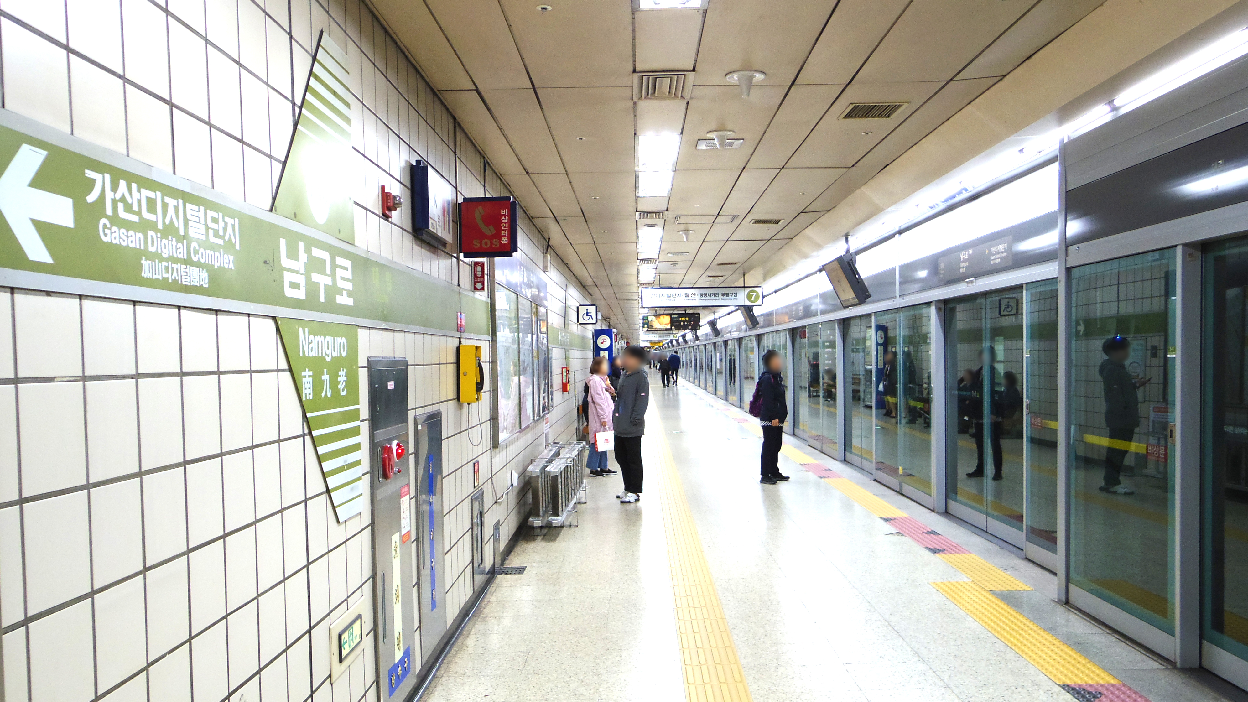 The Onsu-bound platform at Namguro Station on the Seoul Subway Line 7 in Guro-gu, Seoul, Republic of Korea(South Korea)